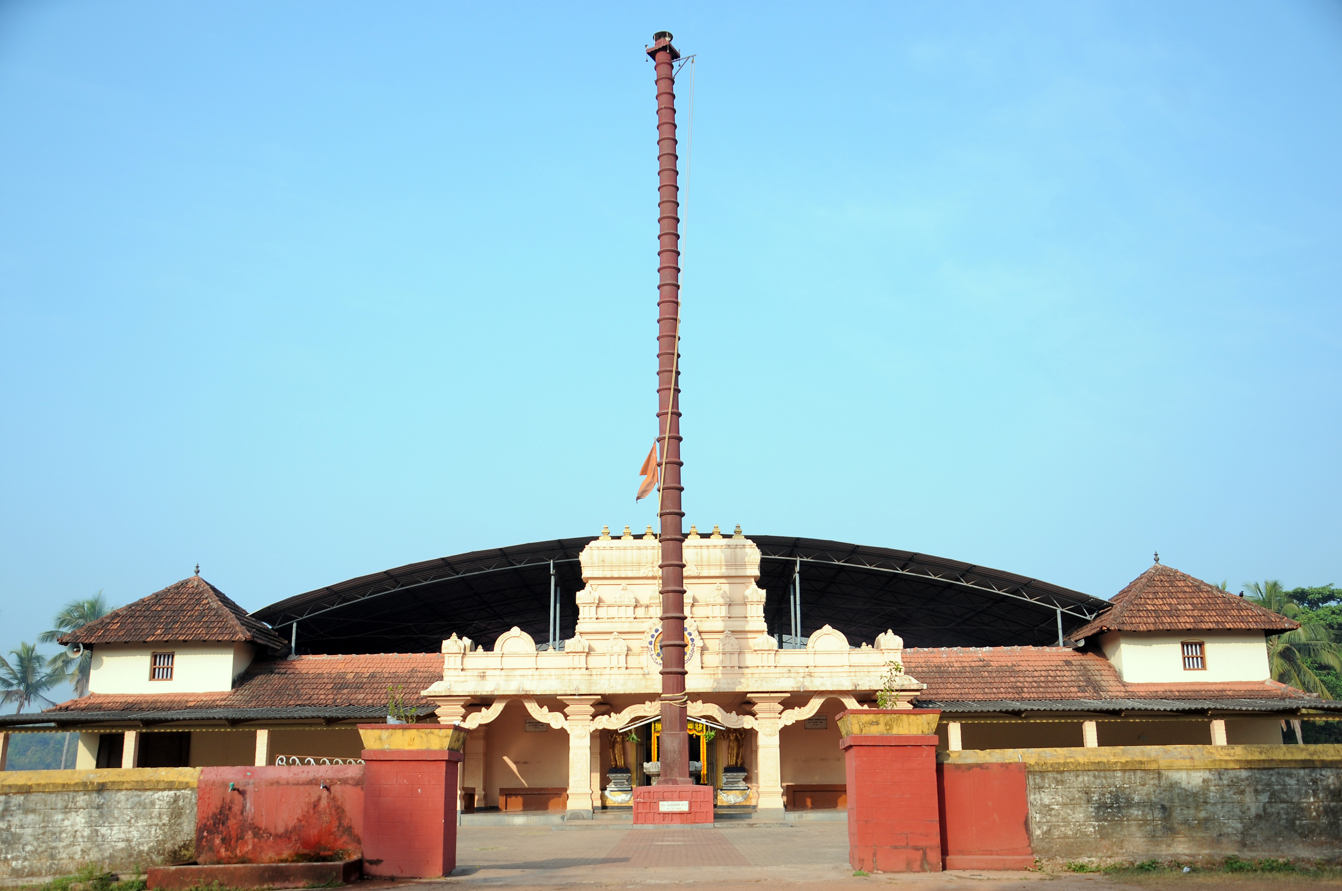 Shree mahalakshmi Tremple, Uchhila. Outside vew